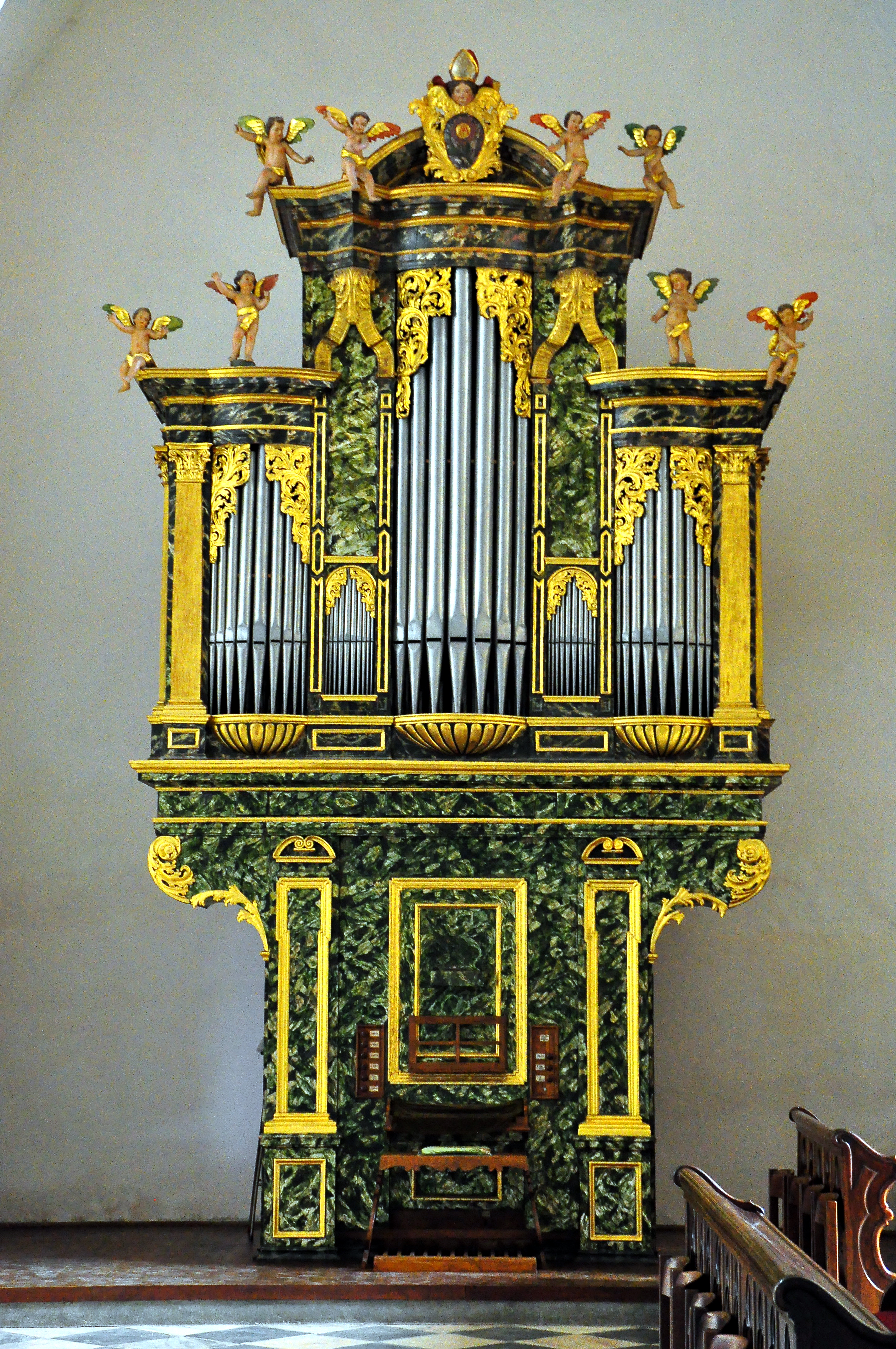 Organ in the abbey church of the cistercian monastery Viktring in the 13th district "Viktring" of the Carinthian capital Klagenfurt on the Lake Woerth, Carinthia, Austria